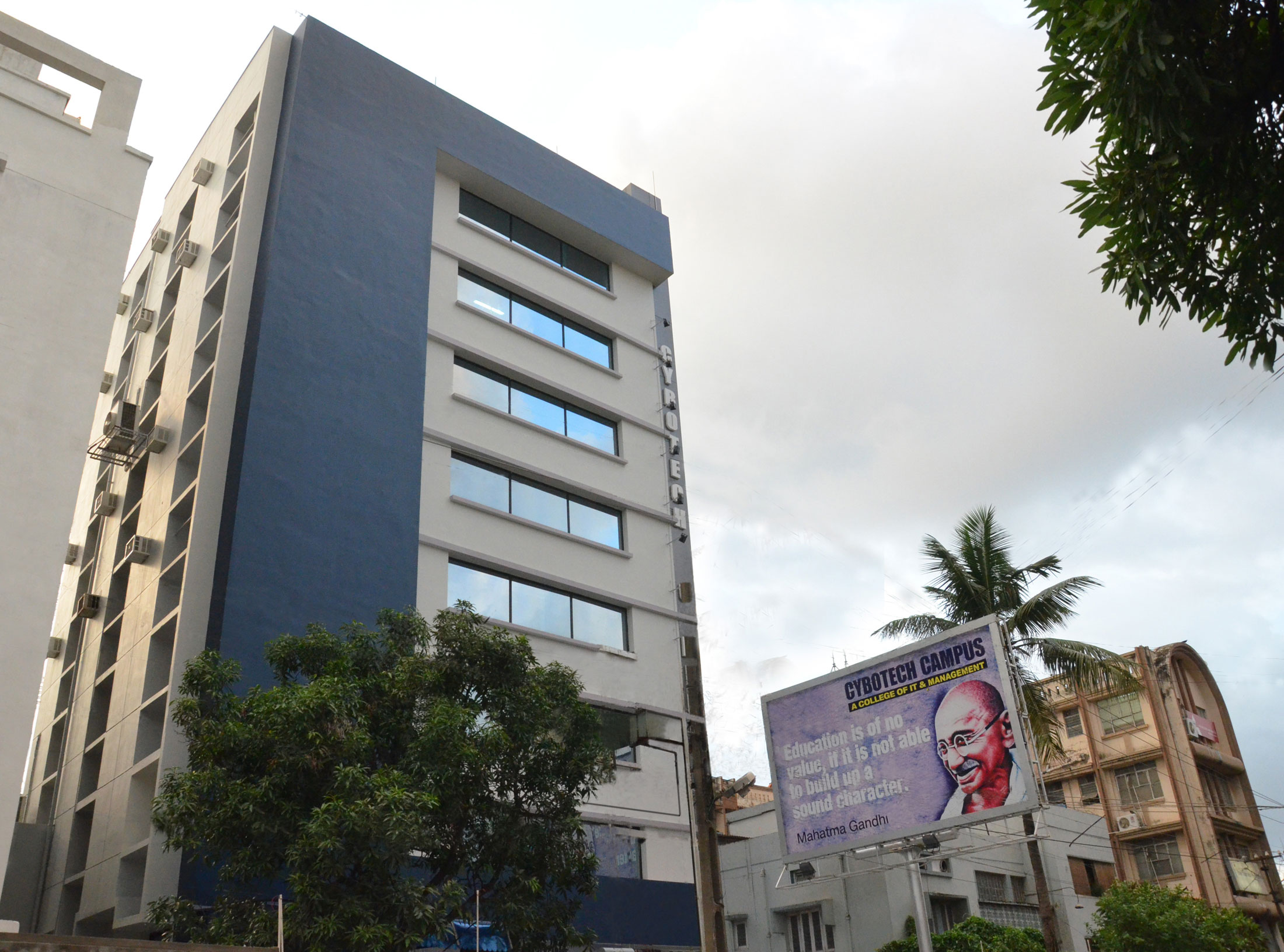 Cybotech Tower, headoffice of Cybotech Campus